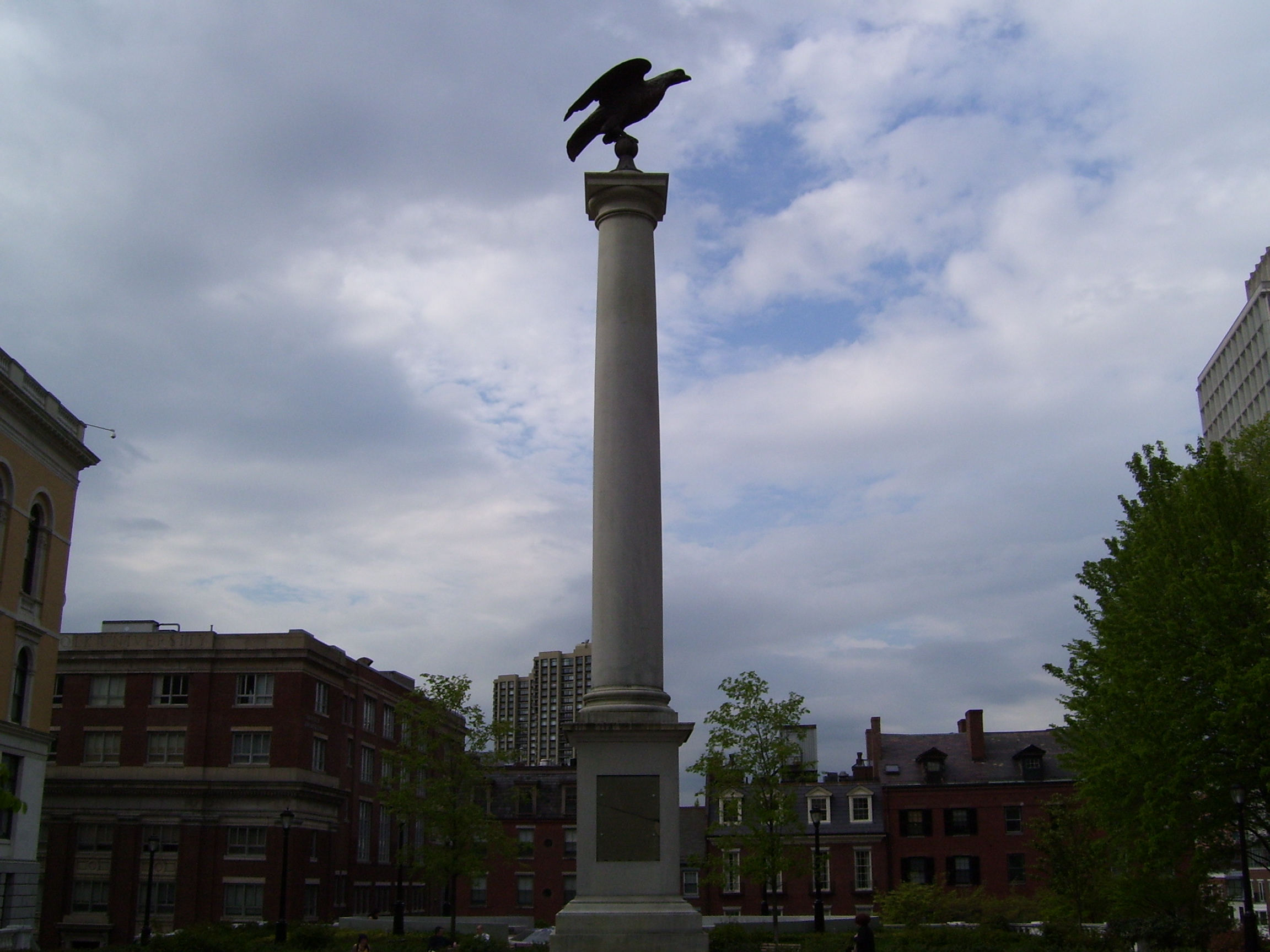 My 2008 photo of the Beacon Monument on Beacon Hill in Boston, MA.